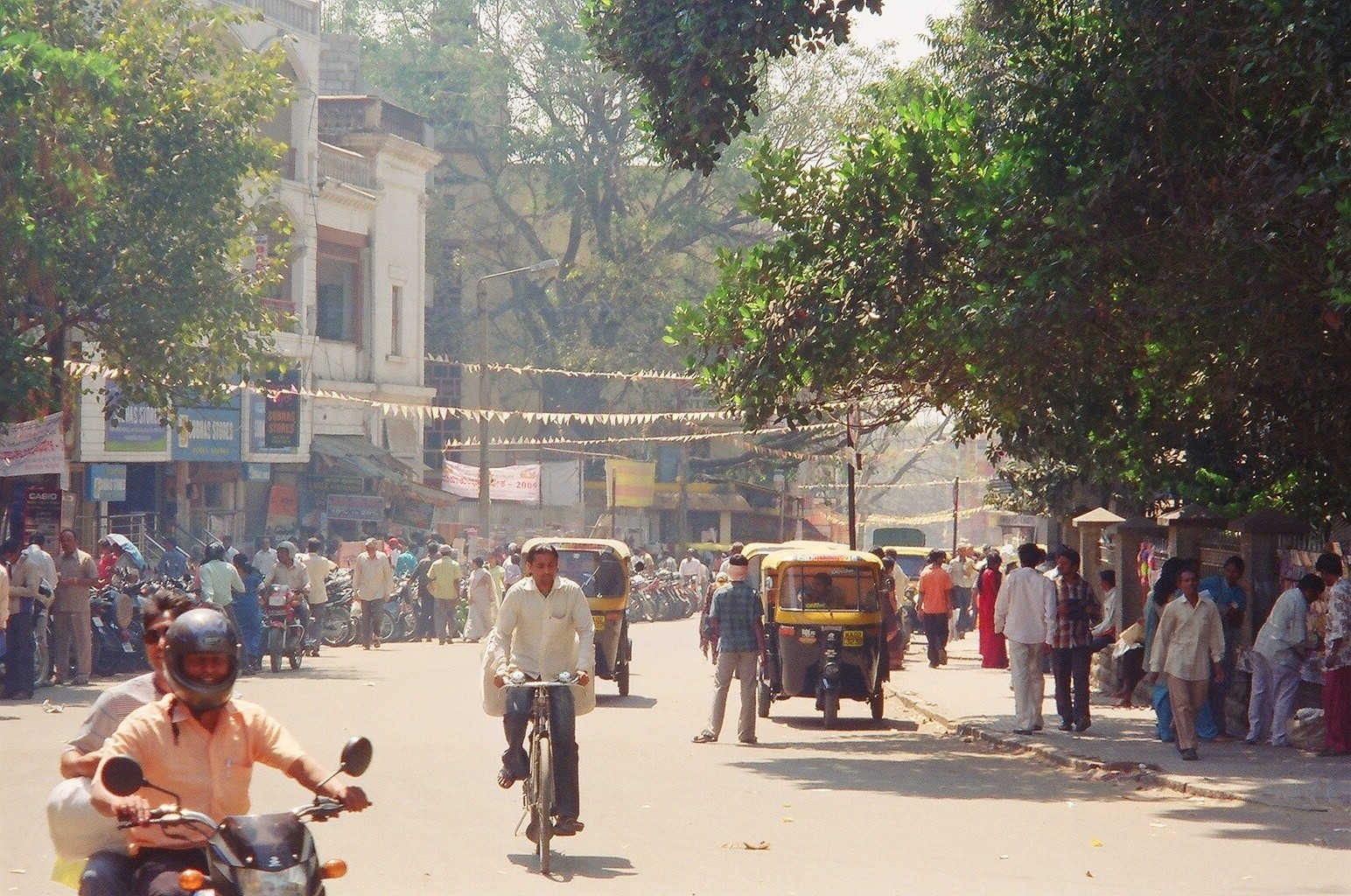 Prsent status of the Old Avenus road of Bengaluru pete